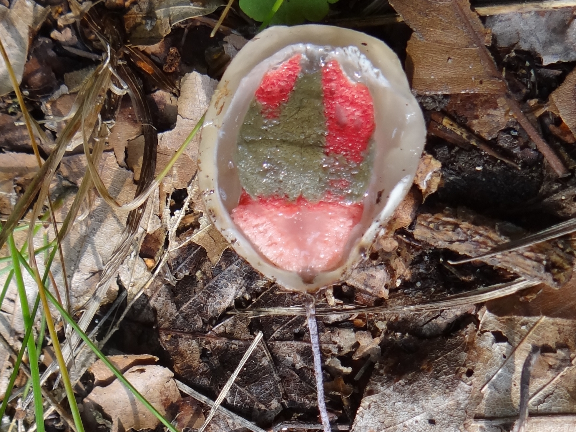 Mutinus ravenelii, young (location: Poland, Rdzawa)